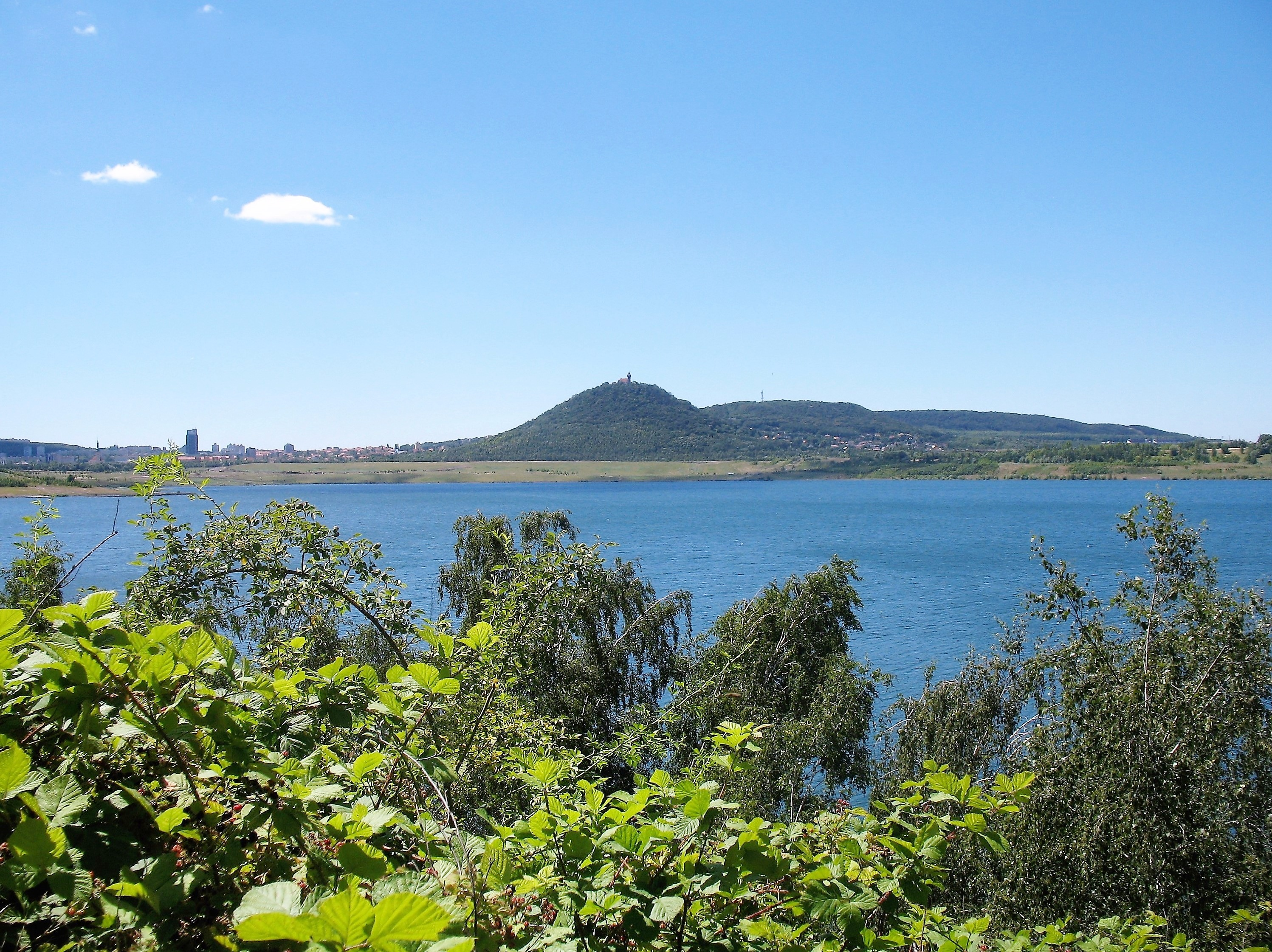 Most Lake, former Coal Mine Ležáky, Northern Bohemia, Czech Republic